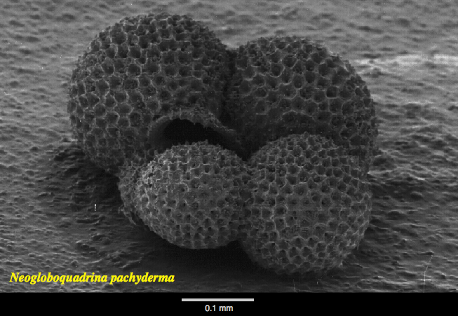 Neogloboquadrina pachyderma - calcareous shell of a planktonic foraminifer (Protozoa), found in sediments of the Weddell Sea, Southern Ocean, Antarctica.